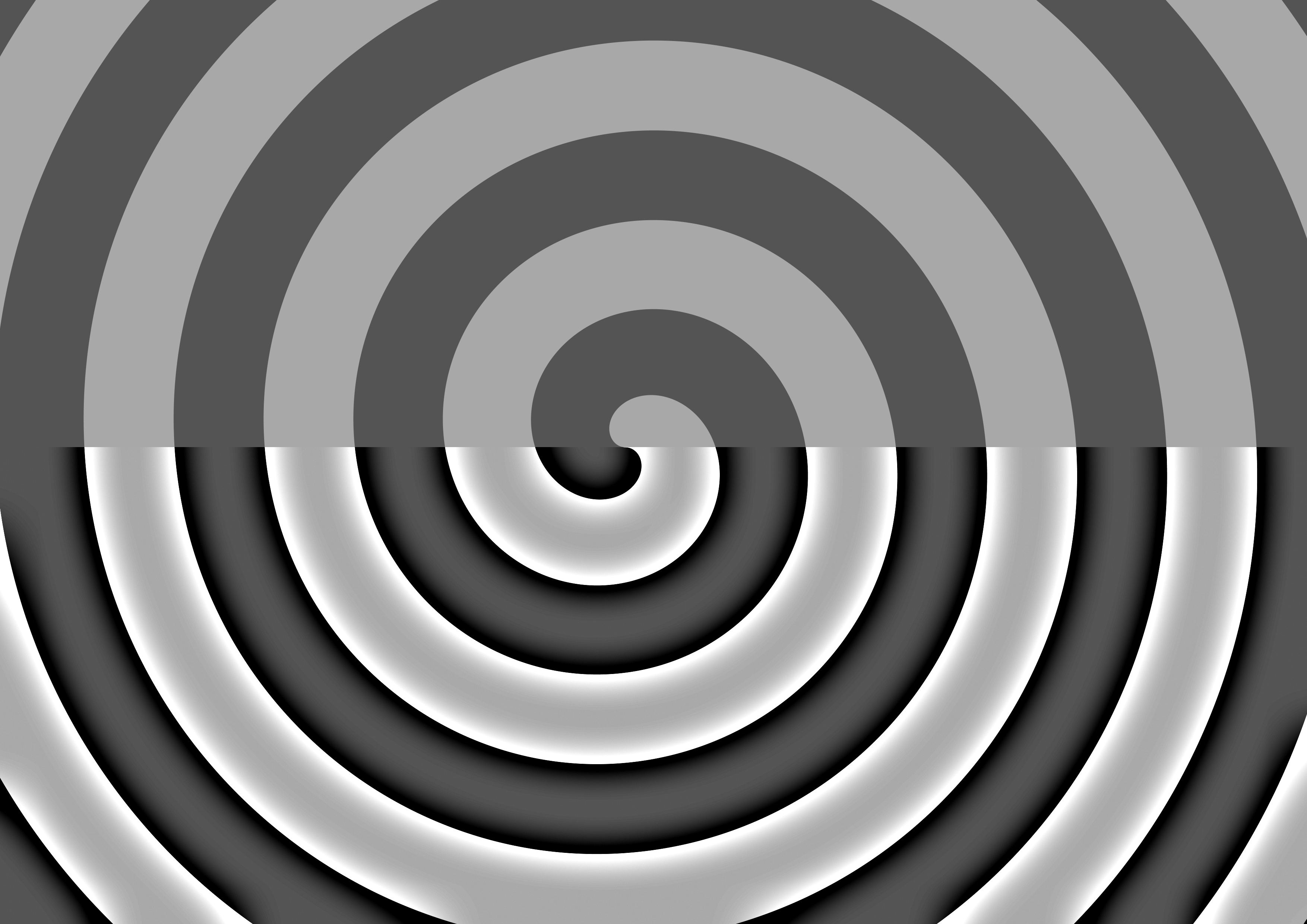 Unsharp mask (USM). USM applied to lower part of image. Radius:50, Amount:3, Threshold:0. Areas neighbor to dark colors are lightened, areas neighbor to light colors are darkened. PNG Save is lossless. Any artefacts seen are due to USM itself. This PNG graphic was created with GIMP. Quality image This image has been assessed using the Quality image guidelines and is considered a Quality image.